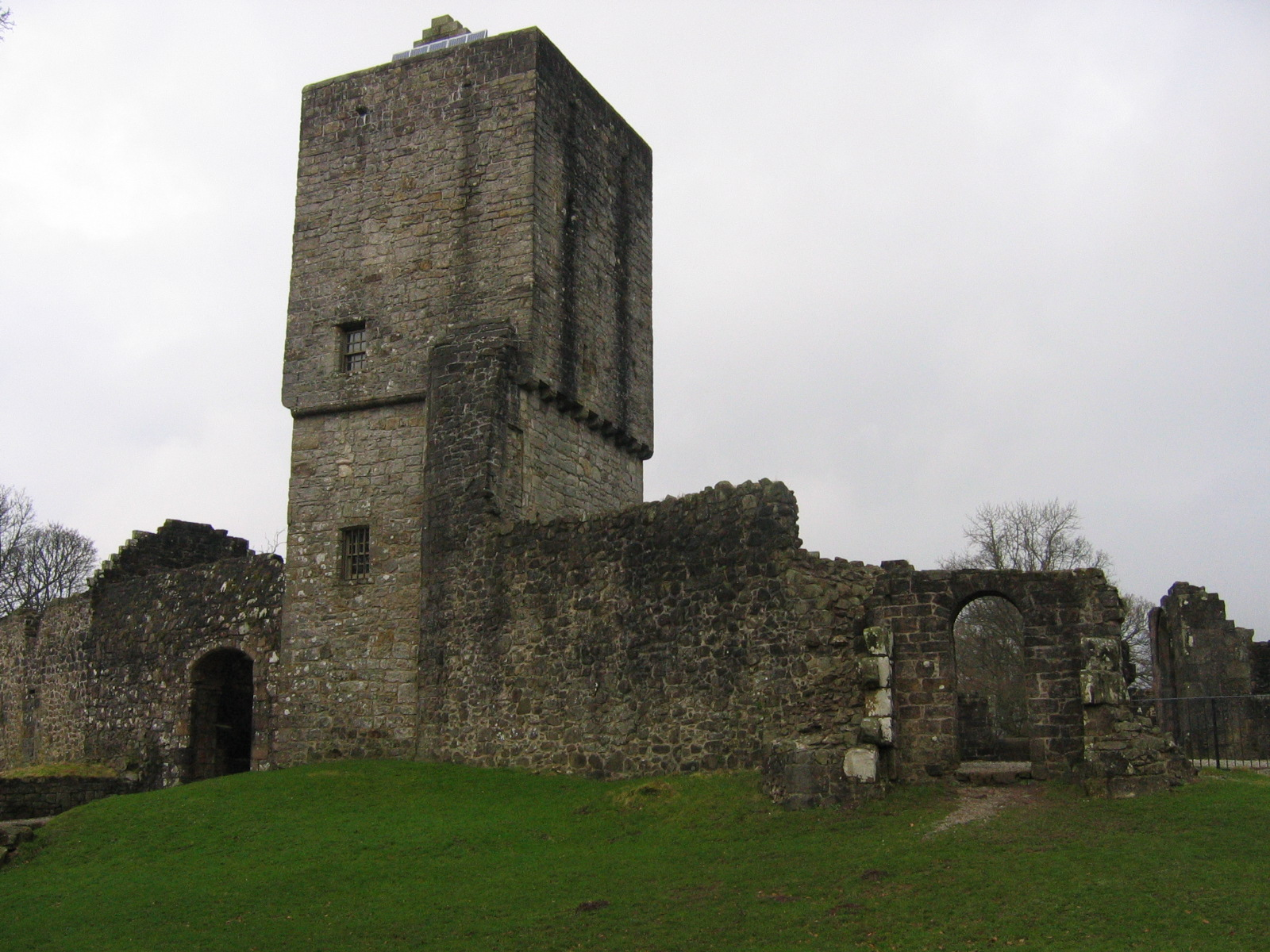 South view of Mugdock Castle, showing SW tower and entry, near Milngavie, Scotland.